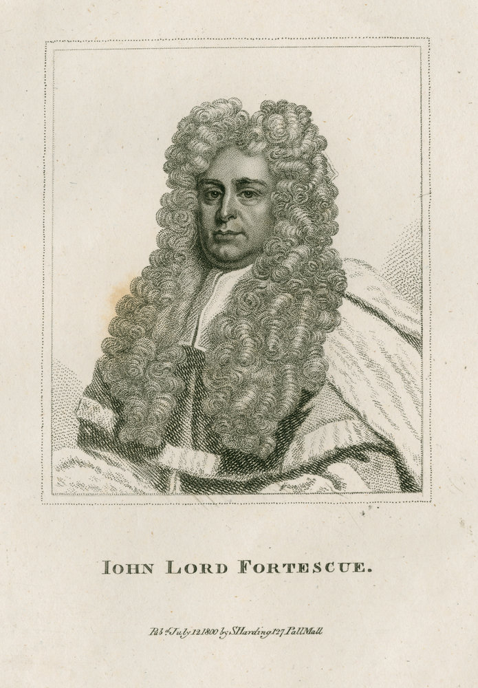 A stipple engraving of John Fortescue Aland, 1st Baron Fortescue of Credan (7 March 1670 – 19 December 1746), an English lawyer, judge, politician, and writer on English legal and constitutional history.